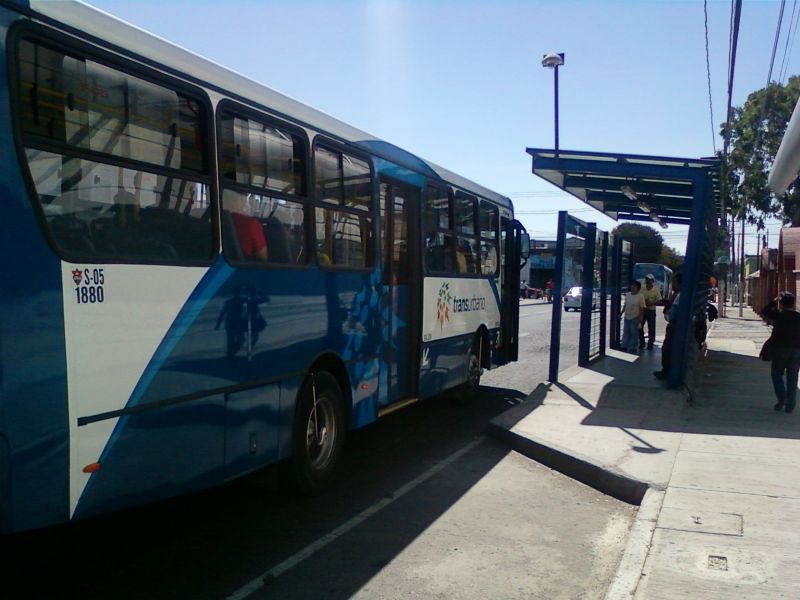 Transurbano, the new bus service in Guatemala.